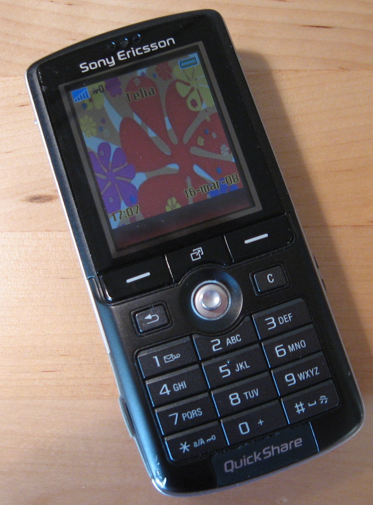 Sony Ericsson k750i Black